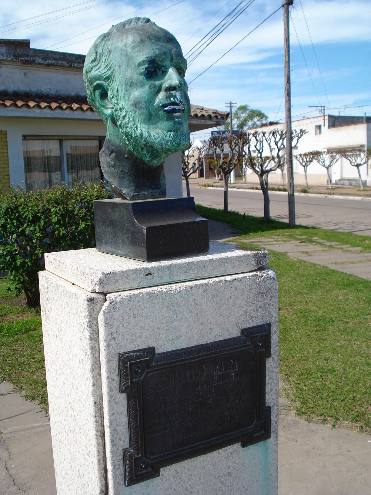 Bust of Guillermo Rawson (1821-1890) in Rawson, Buenos Aires, Argentina.